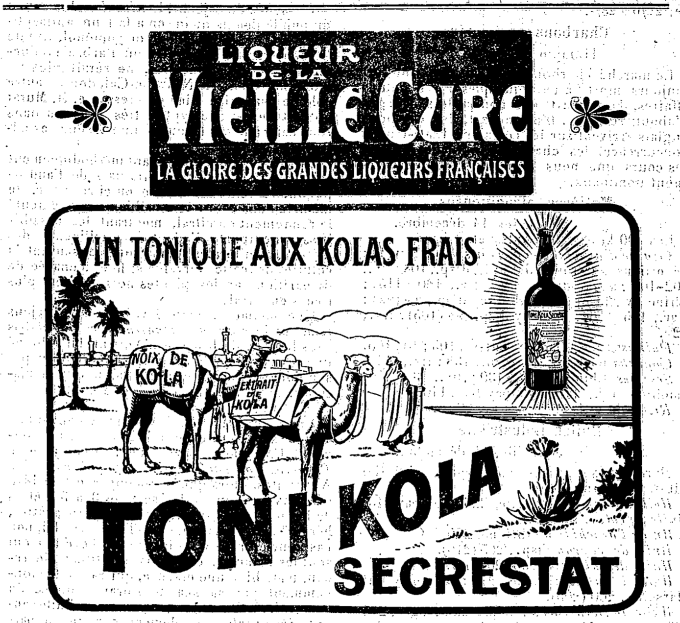 Advertisement of Toni Kola in Indochina 1922 (printed in L'Éveil économique de l'Indochine, 5 February 1922, page 20)